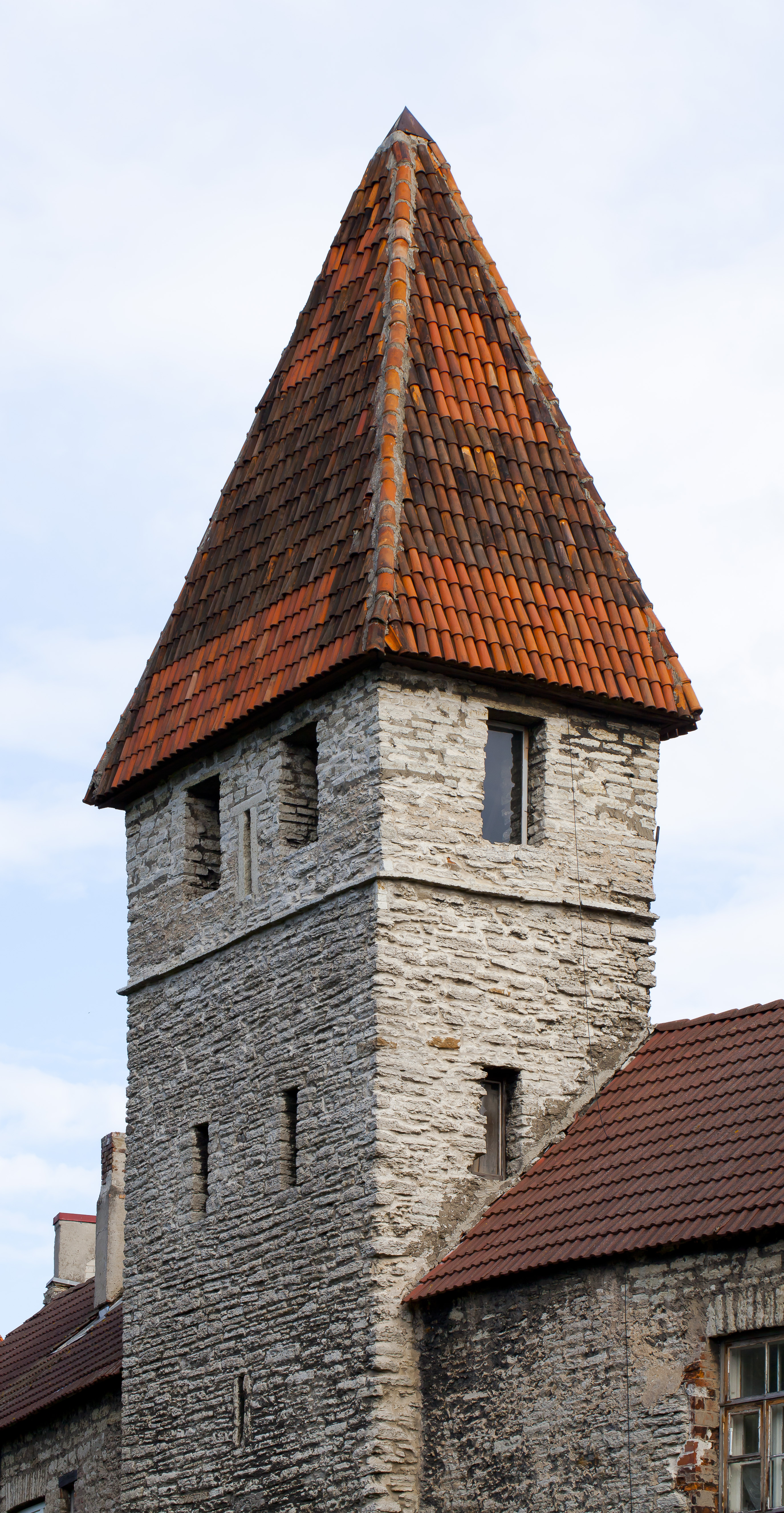 Walls of the old city of Tallinn, Estonia